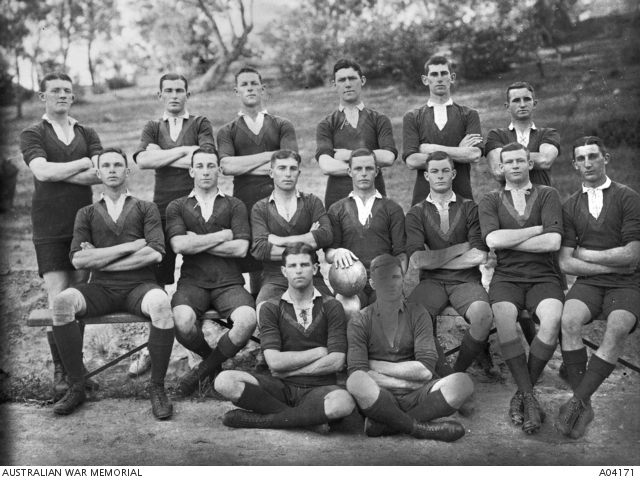 Members of the First Fifteen, First Grade Rugby team at Royal Military College, Duntroon. Identified left to right, back row: R H Donald; W I K Jennings; K G Byron; T A Elliott, (later killed in action KIA); Lane, (later KIA); W A B Steele. Centre row: Unidentified; Hiden, (later KIA); G F Wootten; J R Broadbent; C Clowes; A Thorne (later KIA); H B Hinson, (later KIA). Front row: R H Nimmo; A J Boase.